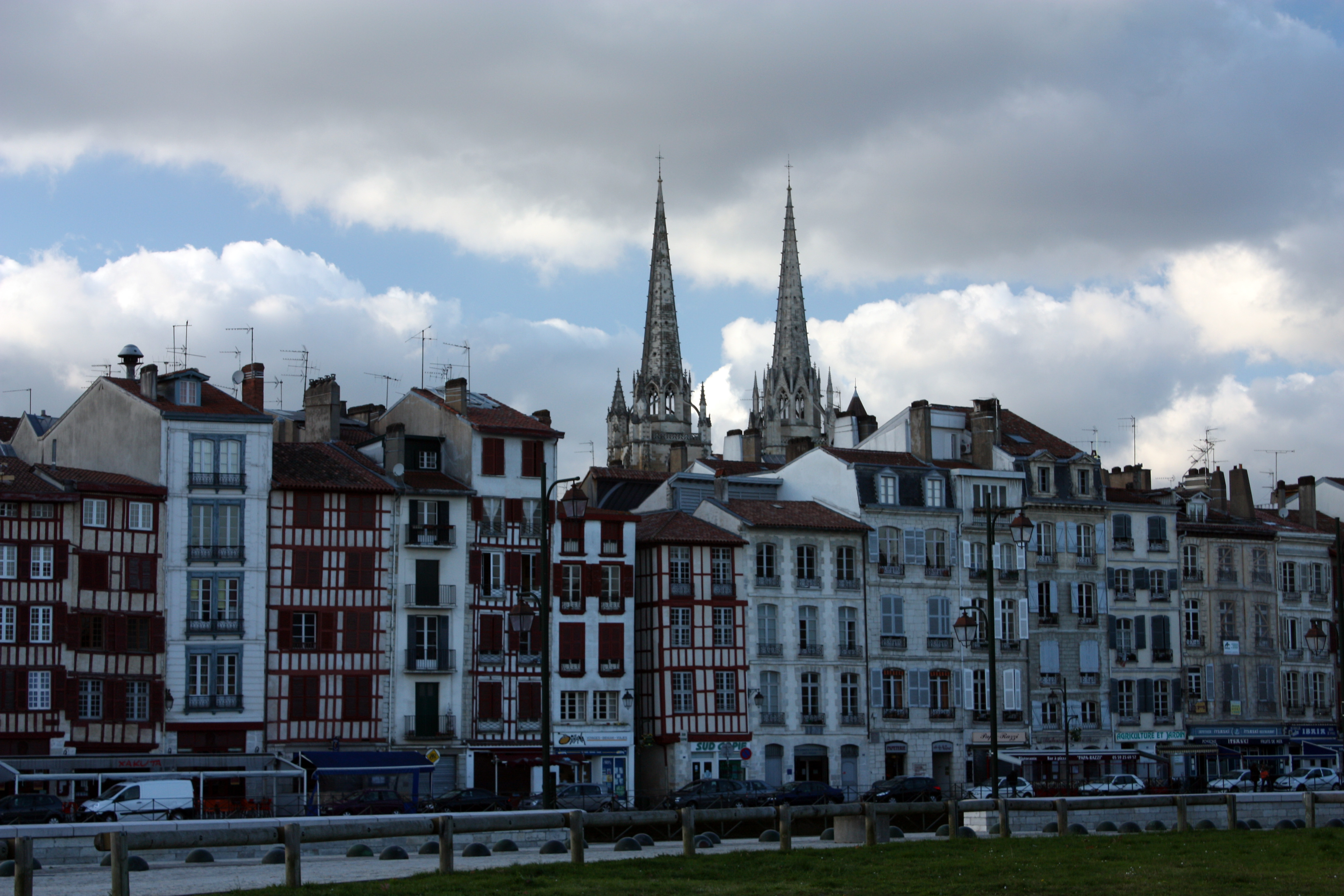 The quay of the Admiral Jauréguiberry and the Cathedral seen from the esplanade du quai Chaho, by a stormy day.